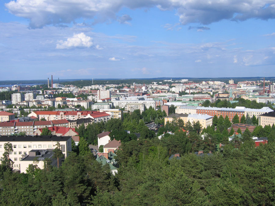 Tampere, Finland from Pyynikki tower